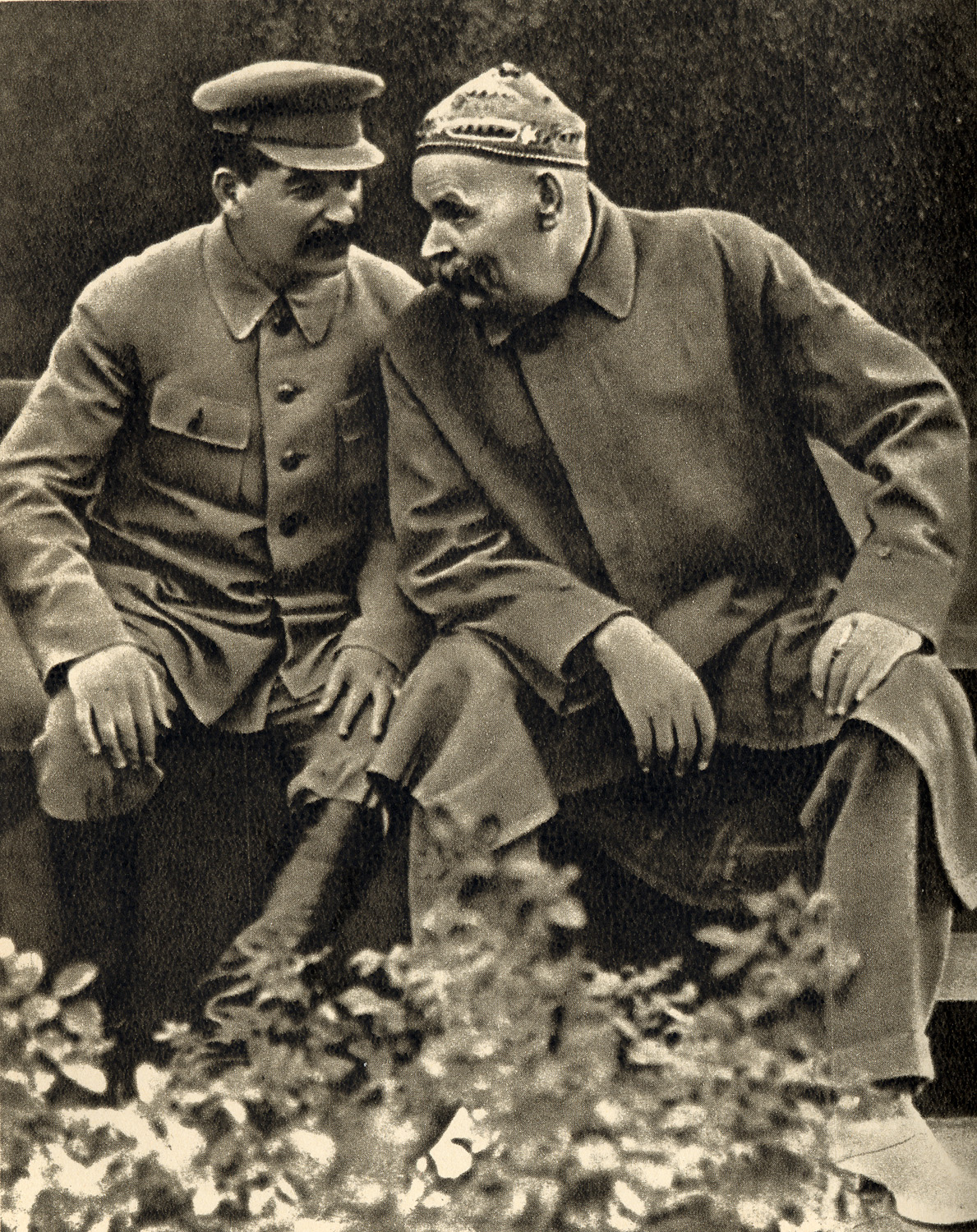 Joseph Stalin and Maxim Gorky in the Red Square, 1931.